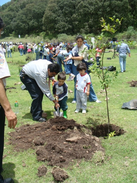 Children participating in the reforestation of Joya La Barreta Park — Municipality of Querétaro, Querétaro state, México